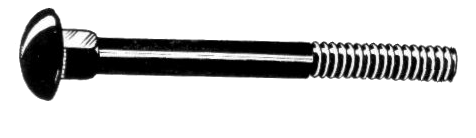 Screw with headrest and without nut.